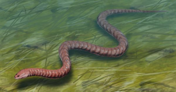 Ophiderpeton brownriggi, an aistopod from the early Carboniferous of Ireland, pencil drawing